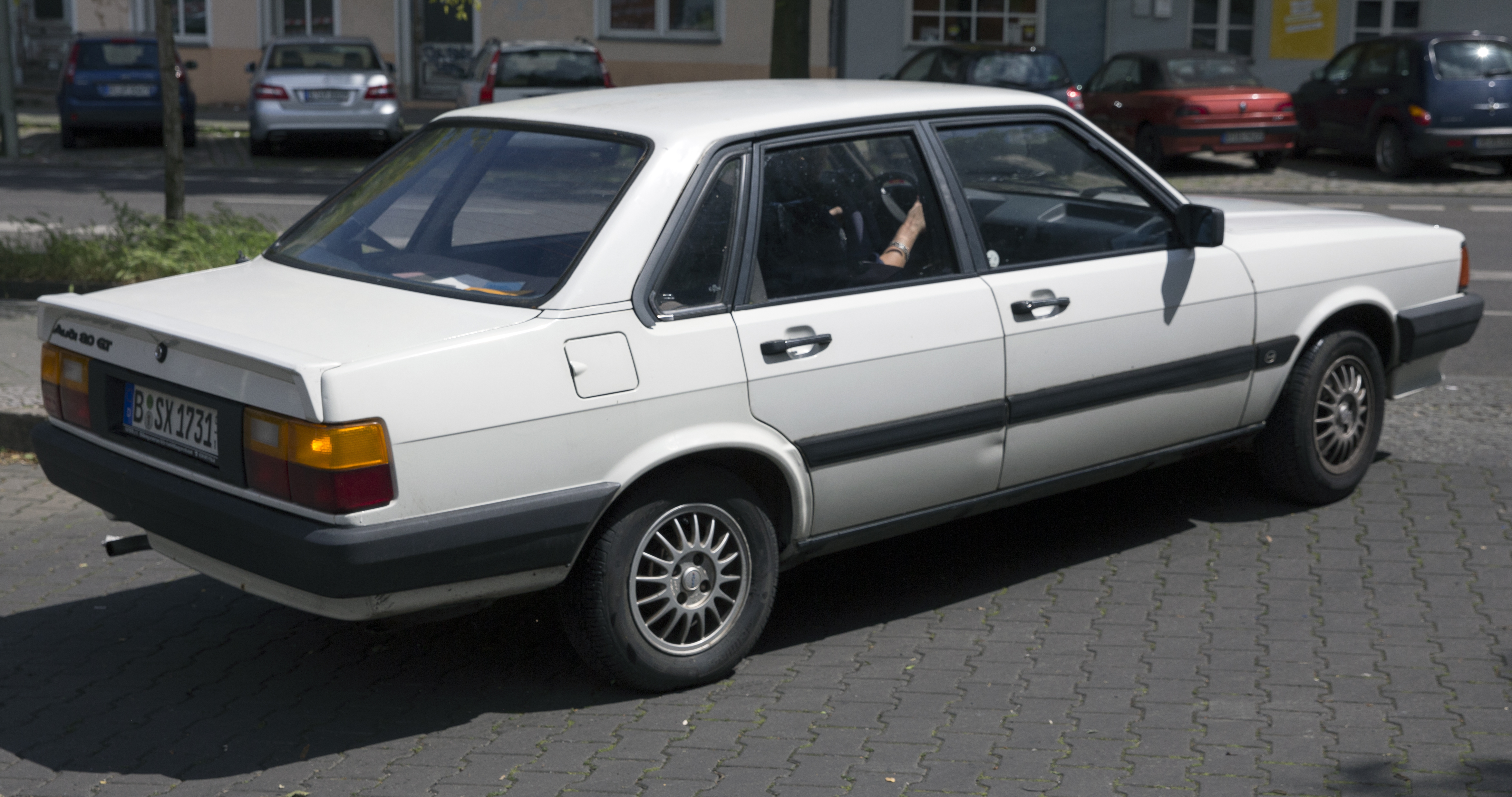 A late 1986 Audi 80 GT in Berlin.